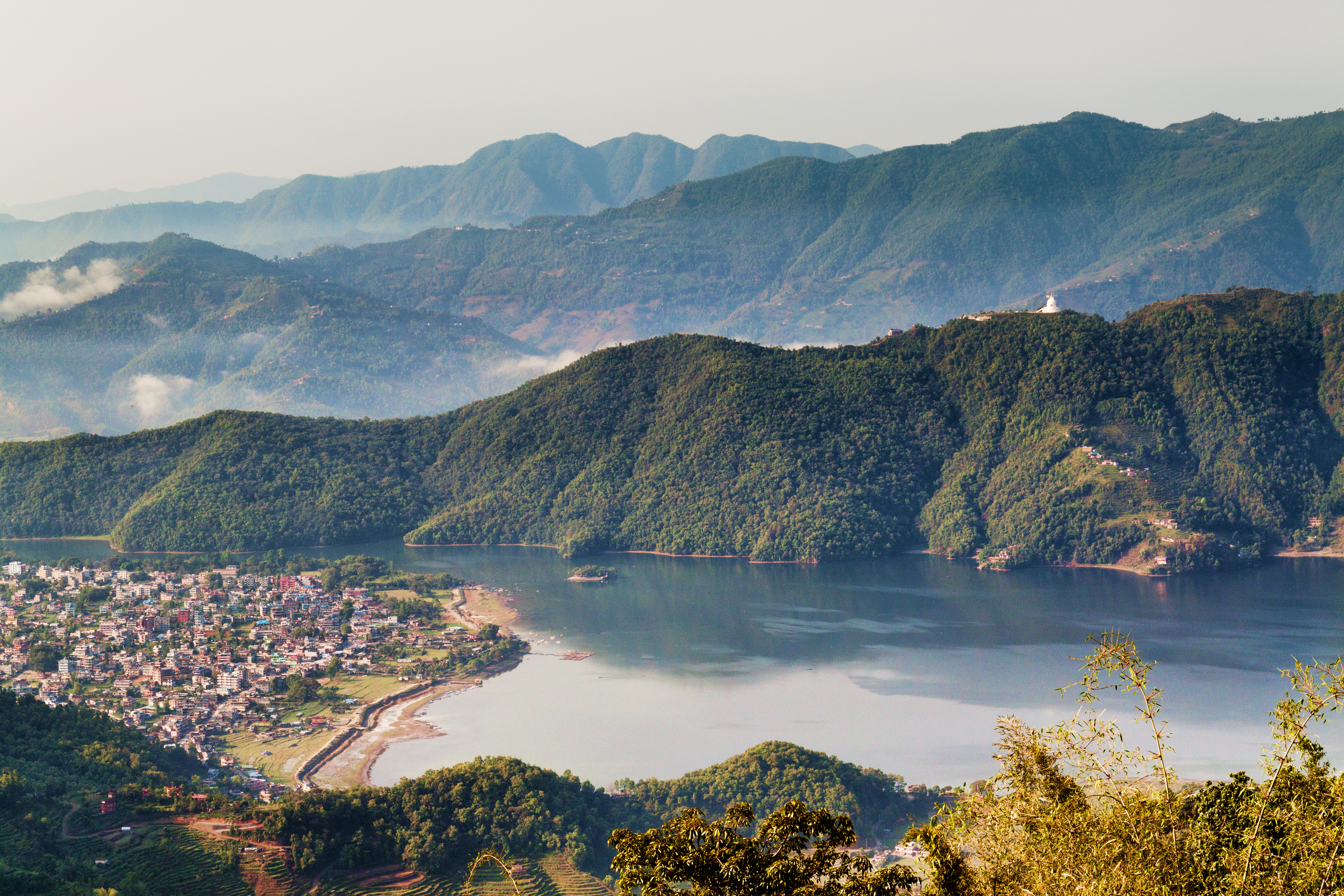 Phewa lake